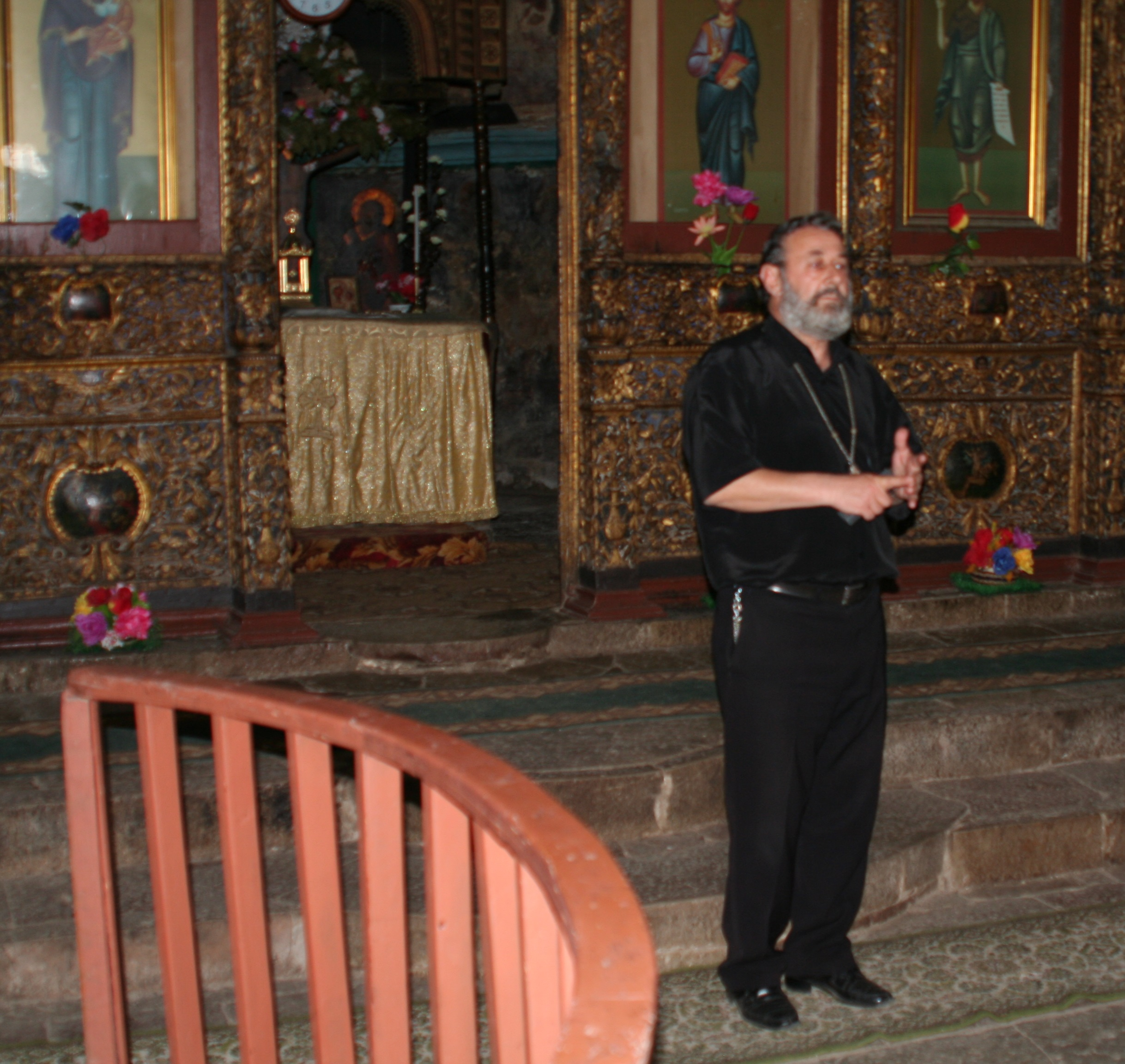 Elbasan, Albania, St Mary's Church